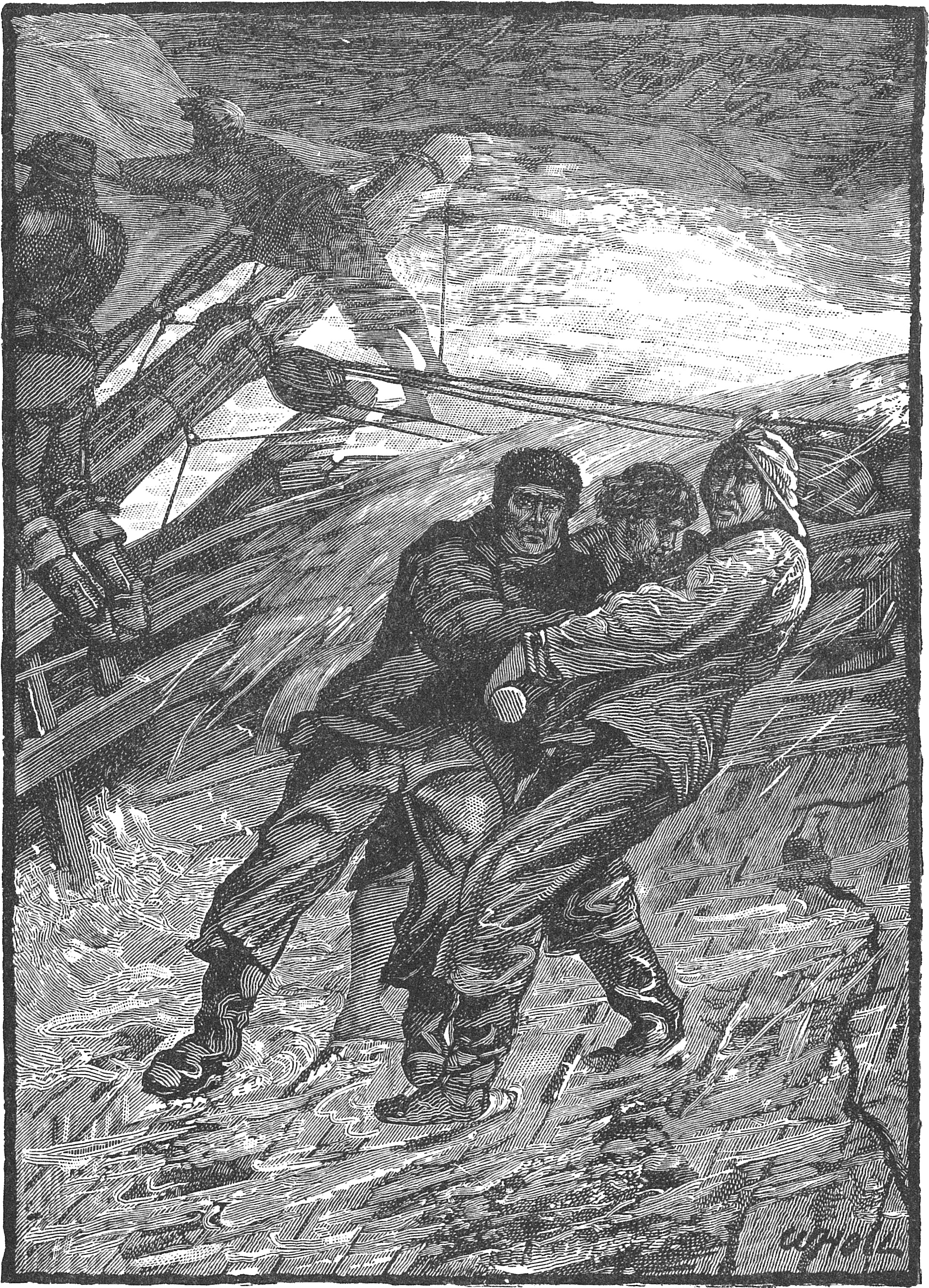 "Two hands were put to the helm, and Hoseason himself sometimes helped" (chapter XIII, « The Loss of the Brig »)